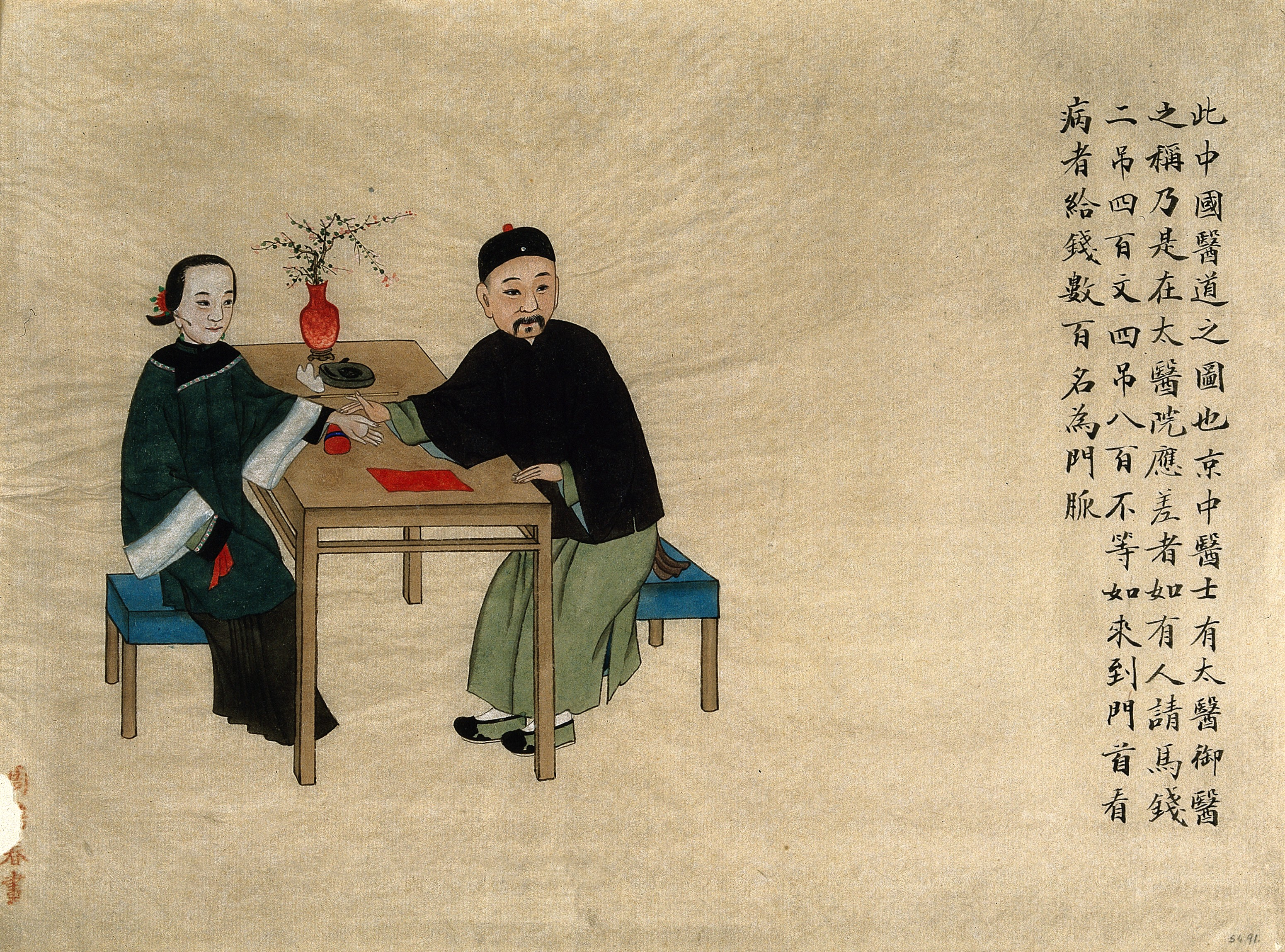 ZHOU PEI QUN {fl. 19th century} Watercolour: Chinese trades and professions; by Zhou Pei Qun, n.d. physician taking woman's pulse Iconographic Collections Keywords: zhou pei qun {fl. 19th century; Medicine, East Asian Traditional; ORIENTAL MEDICINE; Pulse; Cardiology